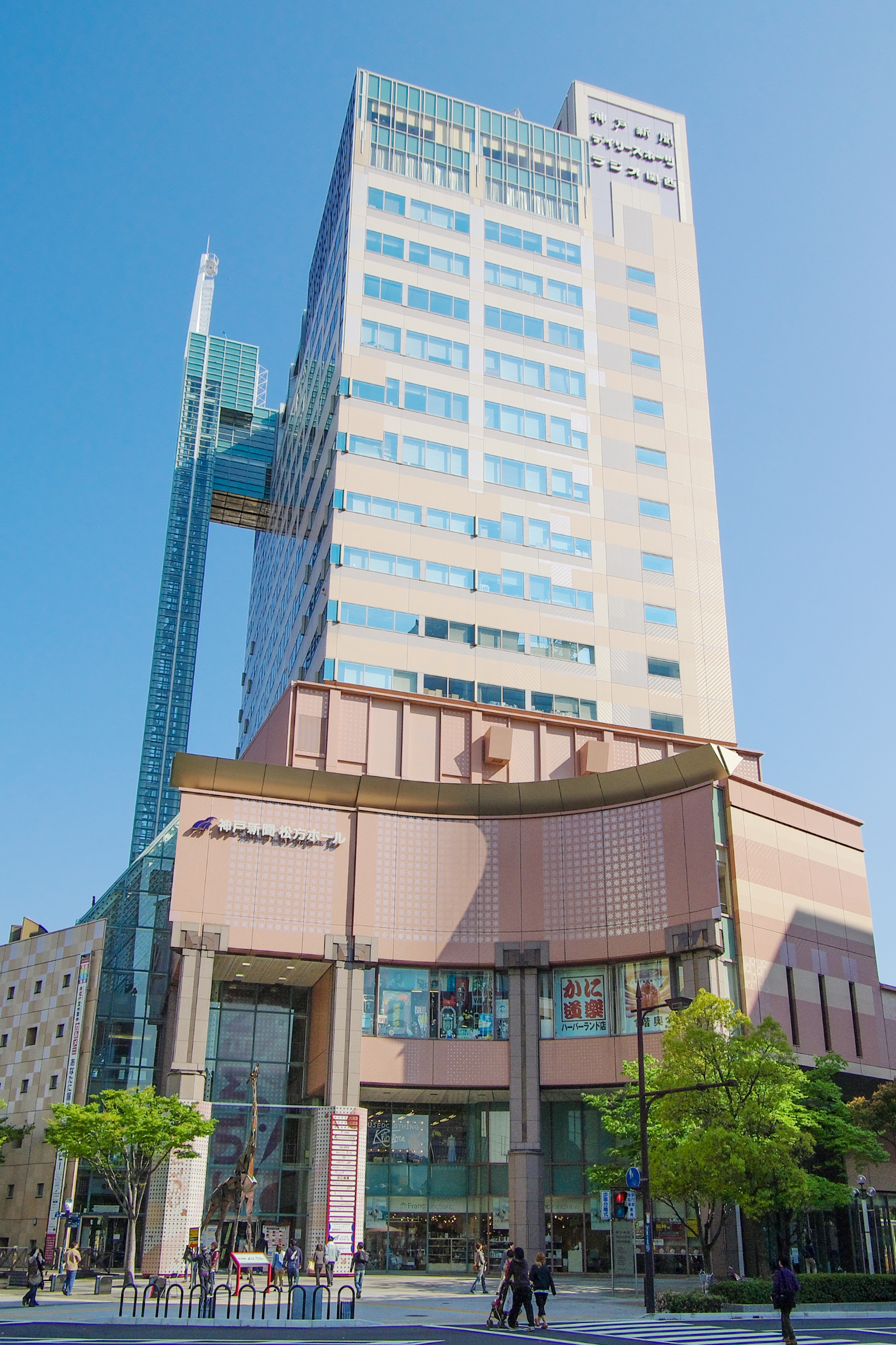 Photograph of Kobe Information Culture Building, headquarters of Kobe Shimbun and Radio Kansai, in Harborland area of Chuo-ku, Kobe, Hyogo Prefecture, Japan.